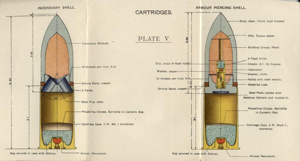 Diagrams depicting incendiary and armour-piercing rounds for British 1.59-inch (40-mm) Vickers-Crayford gun.